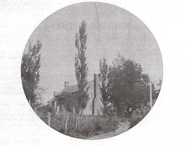 View of "Poplar Grove," circa 1890, built by Col. Abram (sometimes spelled Abraham) Penn, following the American Revolution. Col. Penn was an early pioneer of the region, one of the founders of Patrick County, Virginia, and a hero of the Revolution. His home Poplar Grove is no longer still standing, but Penn's grave marker still exists in a family cemetery there. Image courtesy of .